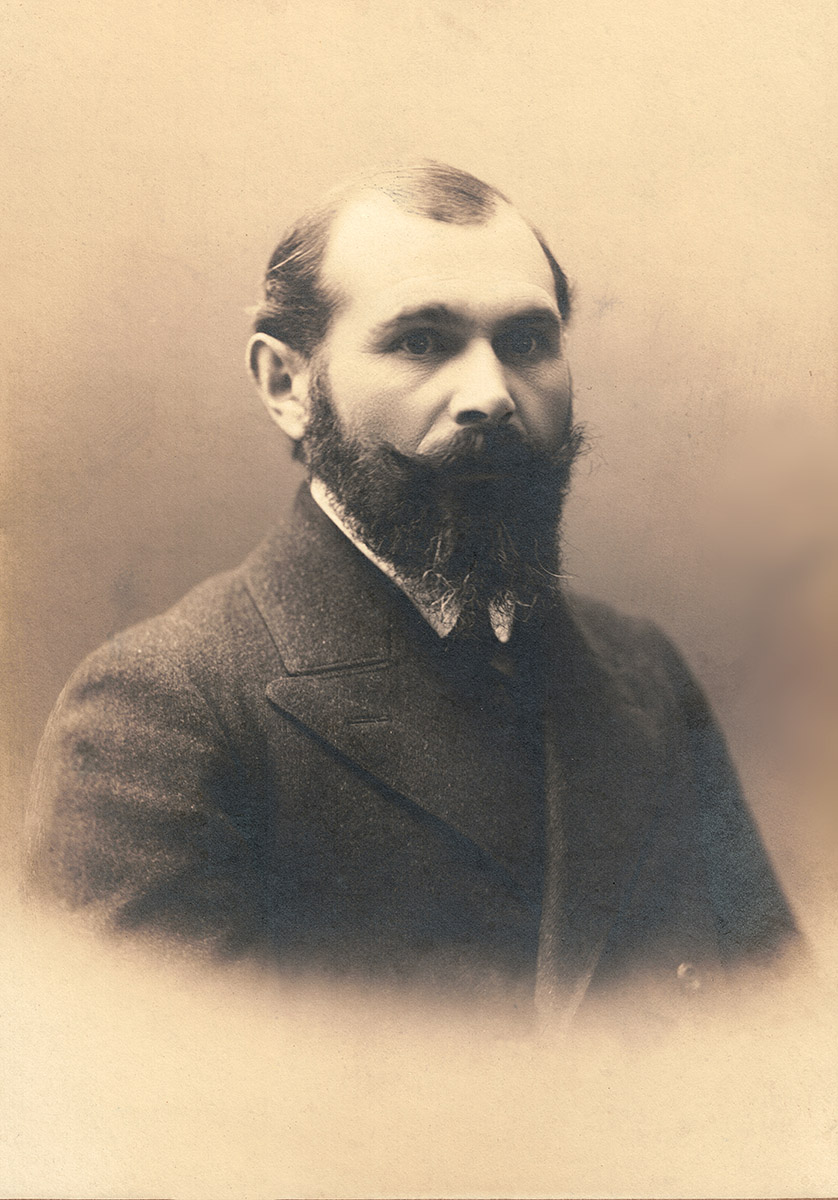 Czech Painter Richard Lauda, photographed by Jos. Sechtl between 1914-1918